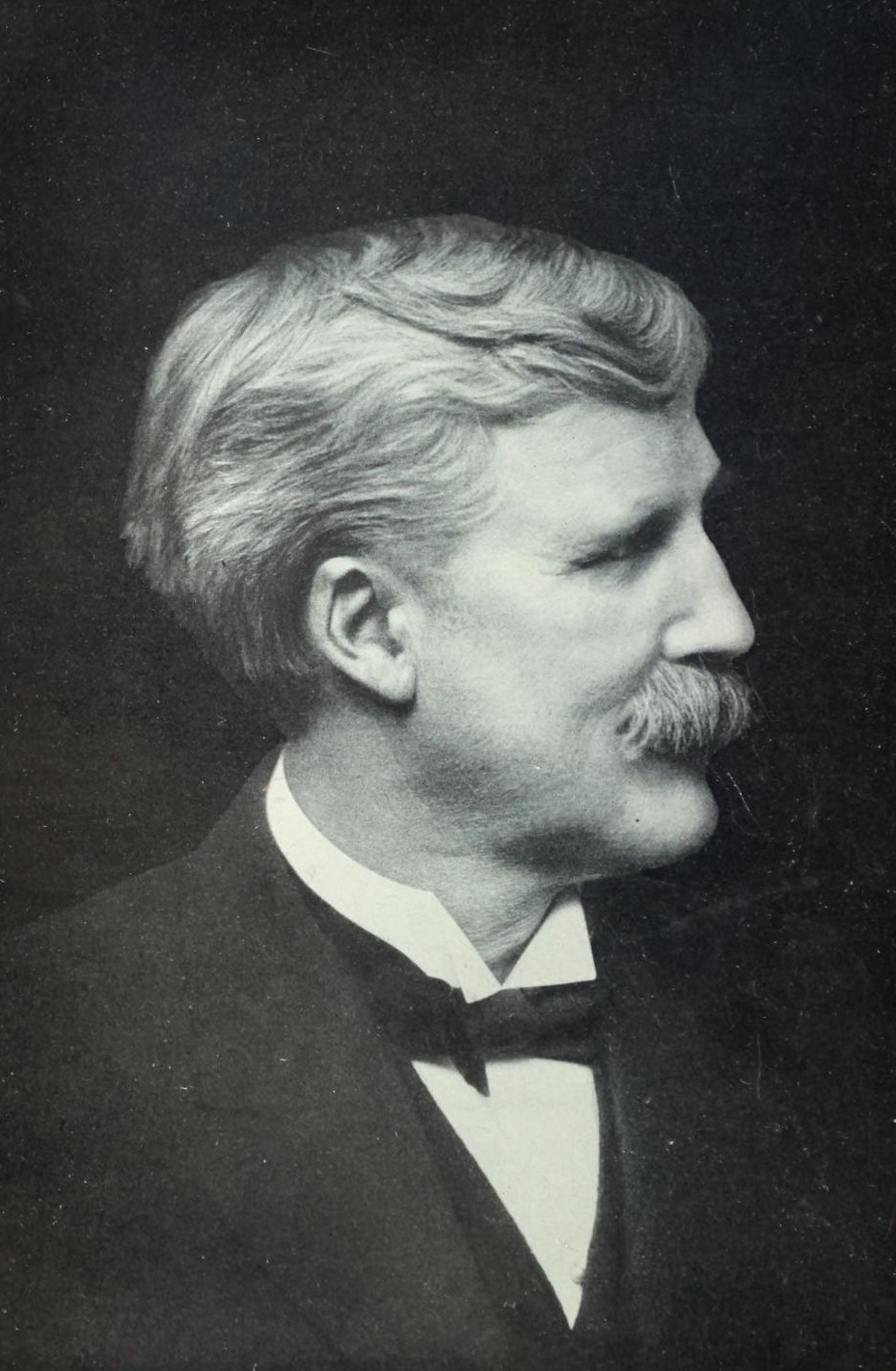 Portrait of Frederick Taylor Gates